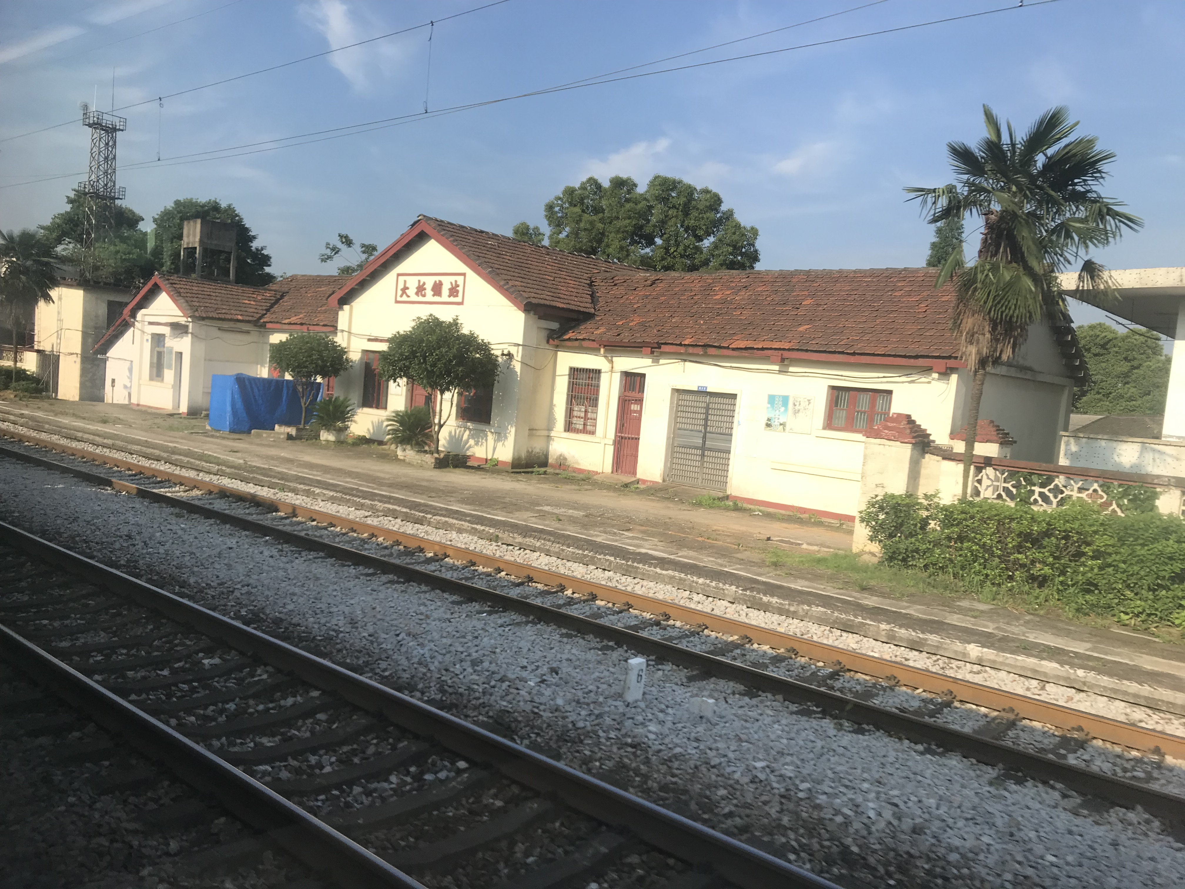 201906 Station Building of Datuopu